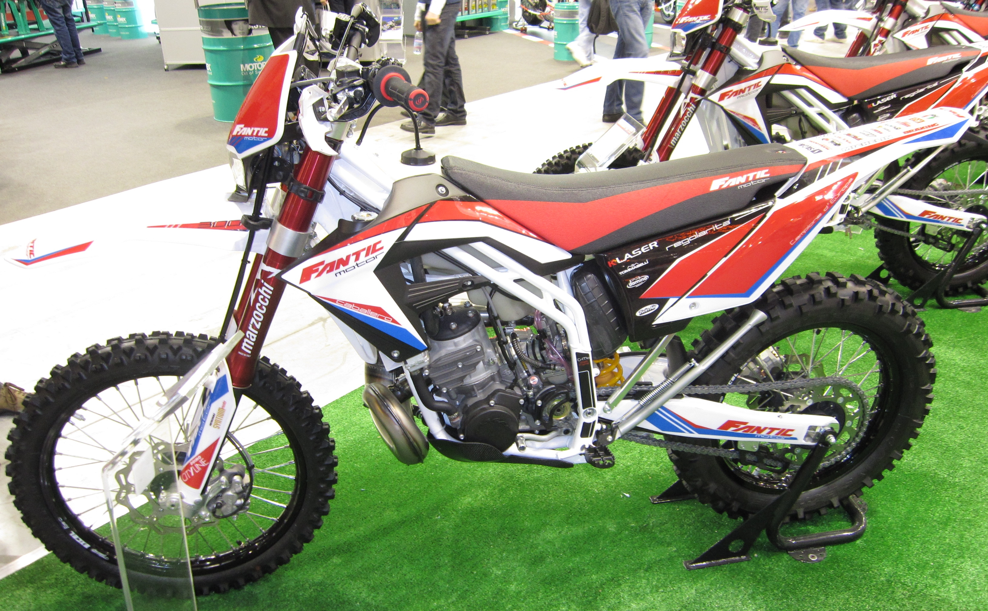 Fantic Motor Caballero 300 "regolarità competizione" ("enduro racing") model year 2012. At the EICMA Milan Motorcycle Show 2011